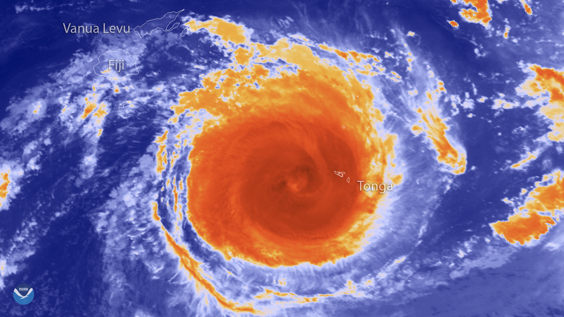 The Japan Meteorological Agency's Himawari-8 satellite captured this thermal infrared imagery of powerful Tropical Cyclone Gita in the South Pacific at 1550 UTC on February 12, 2018. The latest report from the Joint Typhoon Warning Center said the storm had sustained winds near 145 mph as it tracked westward past the island nation of Tonga. The storm's eyewall raked across Tonga's capital, Nuku'alofa, Monday evening (local time), battering the city with destructive winds and flooding rain.